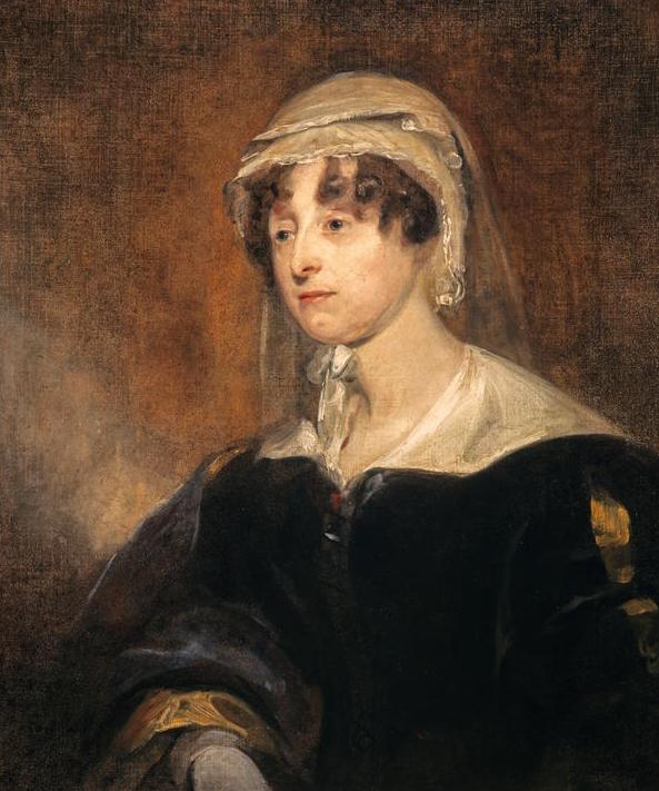 Portrait of Carolina Nairne by John Watson Gordon (1788-1864)